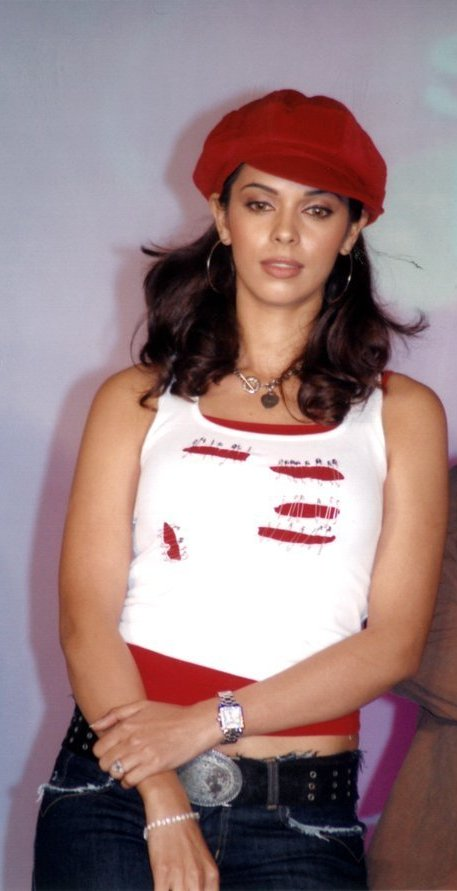 Mallika at ShaadiSePehle audio release